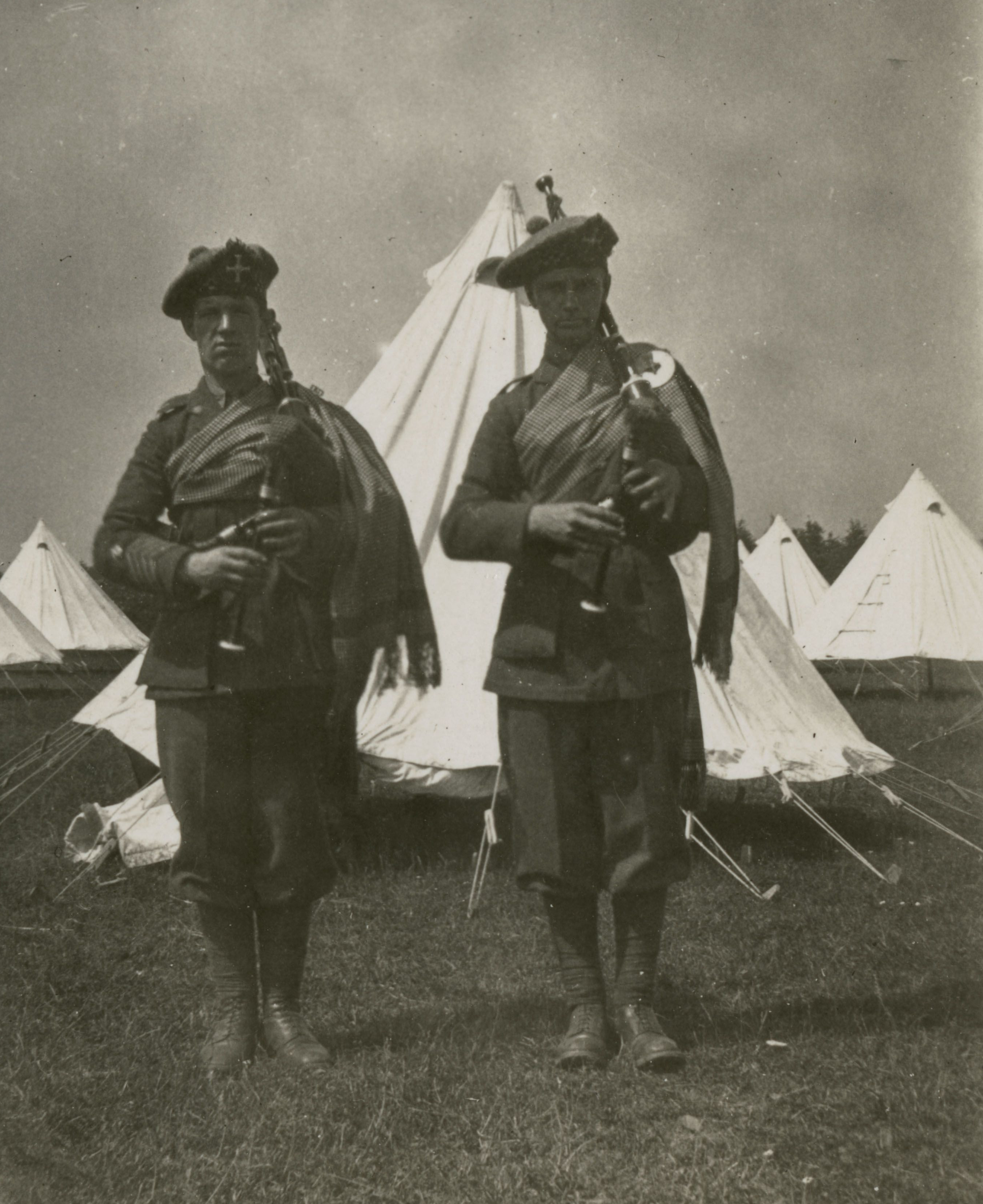 Durham UOTC members playing border pipes